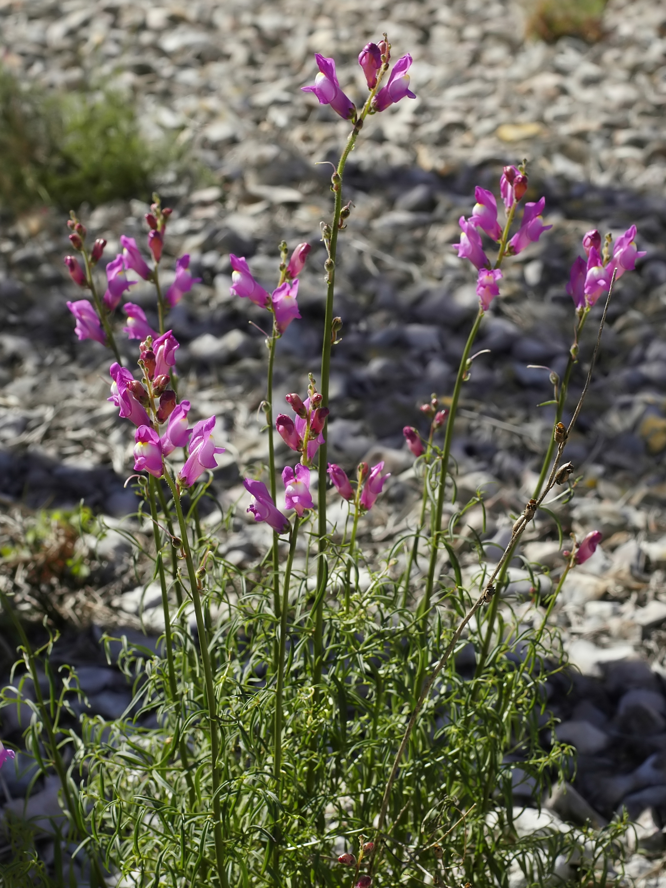 close to el Perelló, Catalonia, Spain